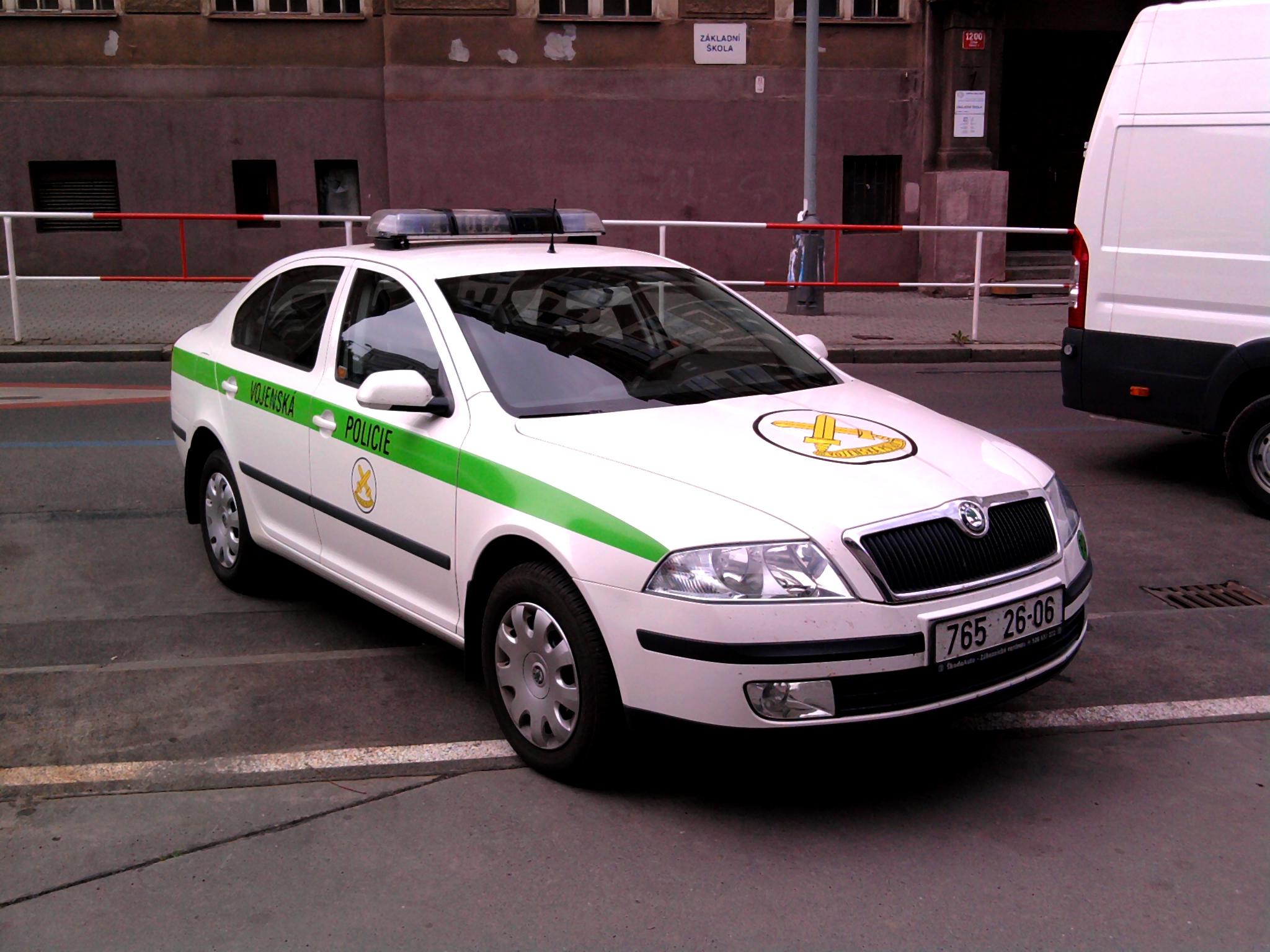 Skoda of the military in Prague